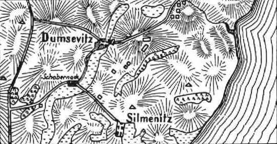 Map of the megalithic tombs near Dumsevitz, Rügen